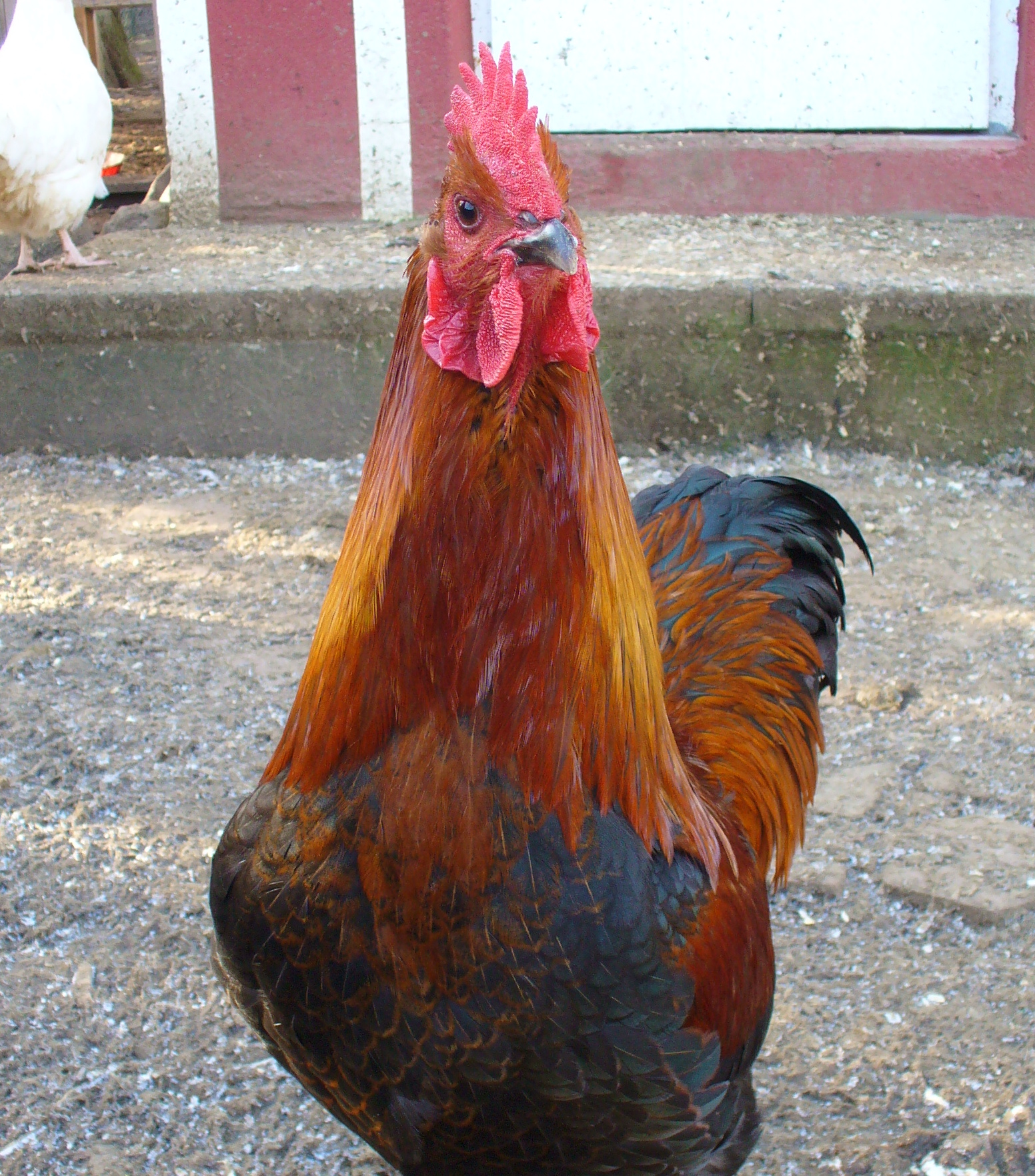 Front view of a cockerel (German Langshan, gold-birchen)